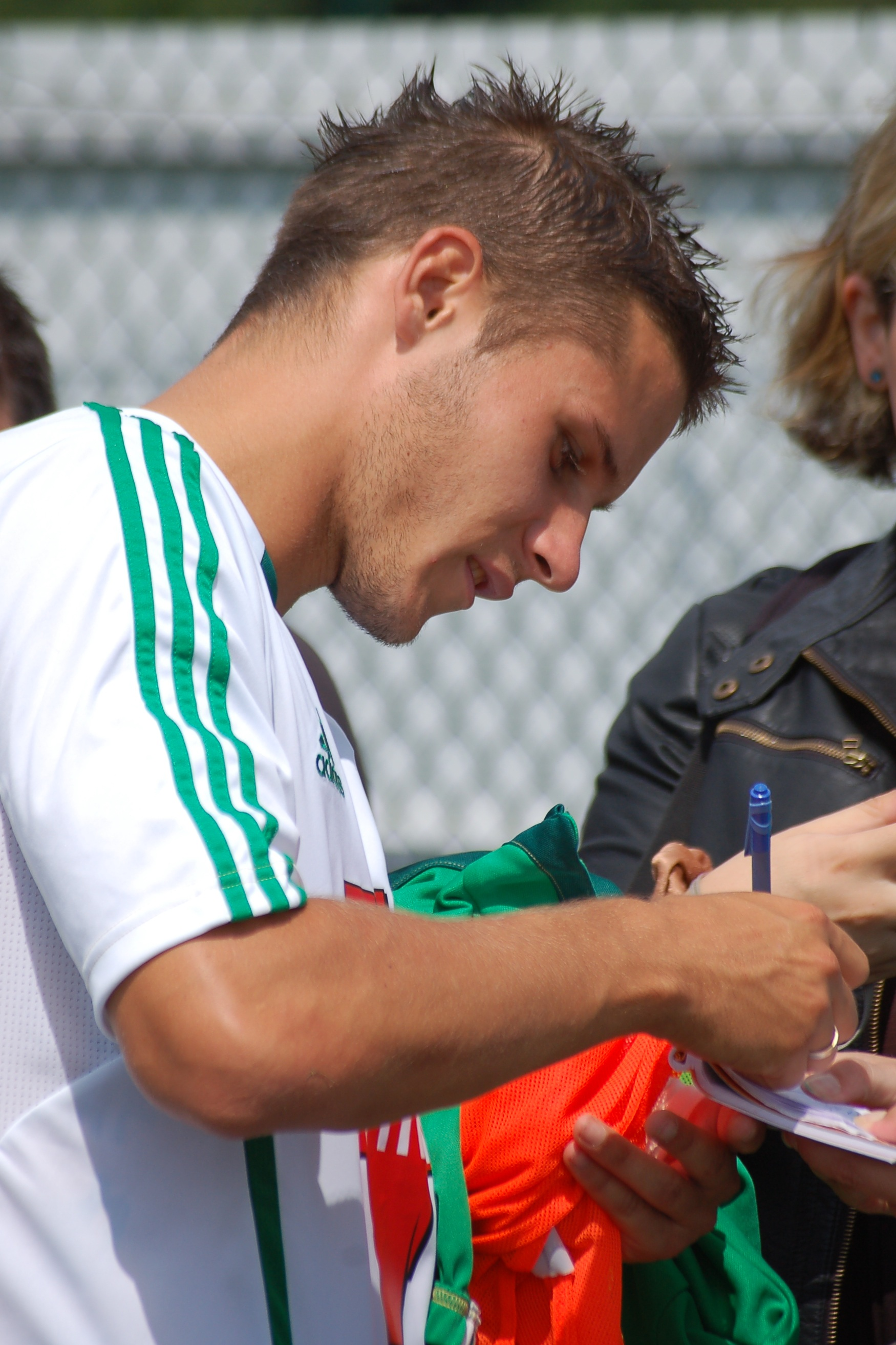 Football player Loris Nery training with AS Saint-Etienne, on August 3rd, 2011 (L'Etrat, France).